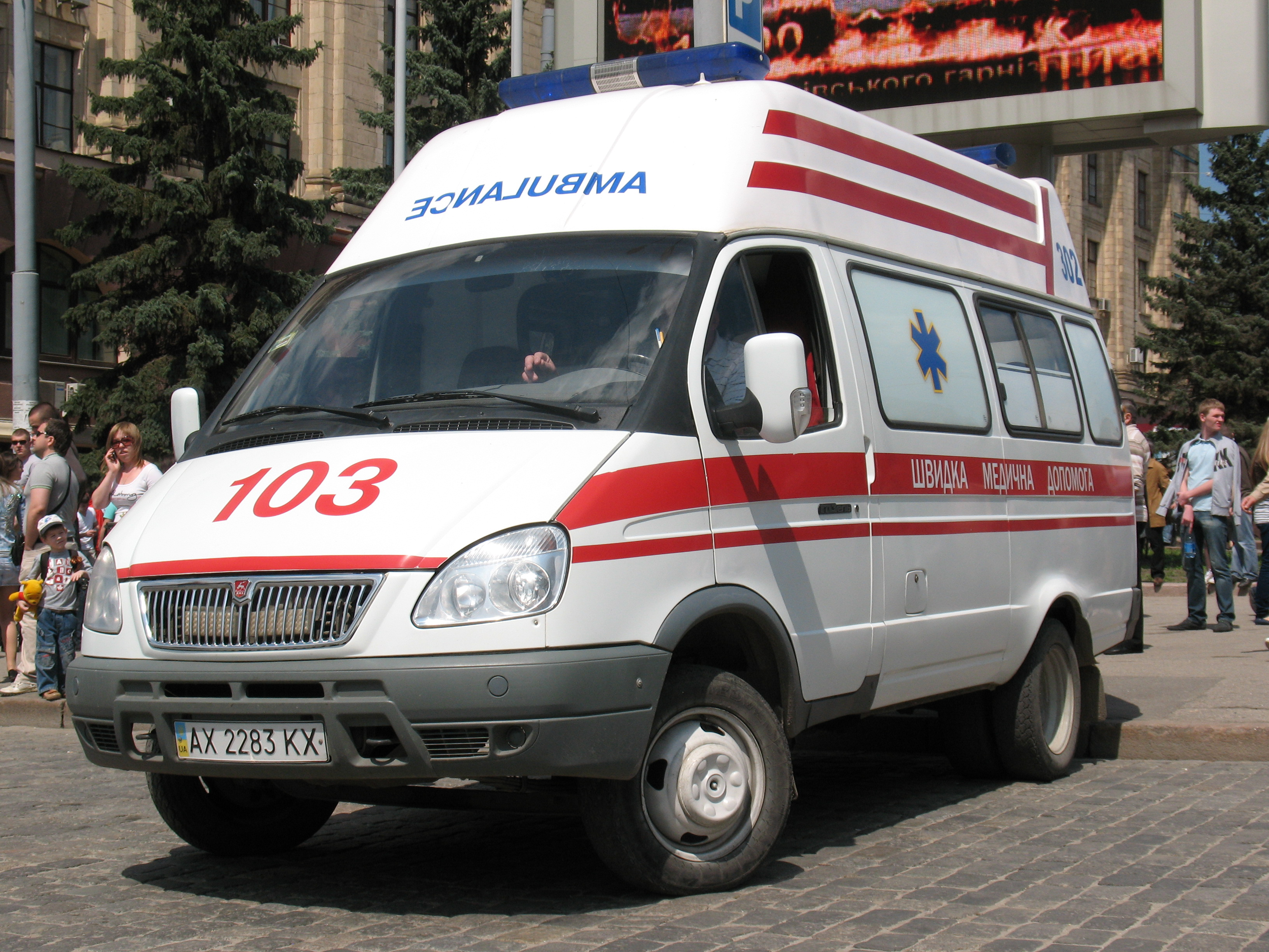 Ambulance GAZelle on Freedom Square, Kharkov, 9 May 2011.